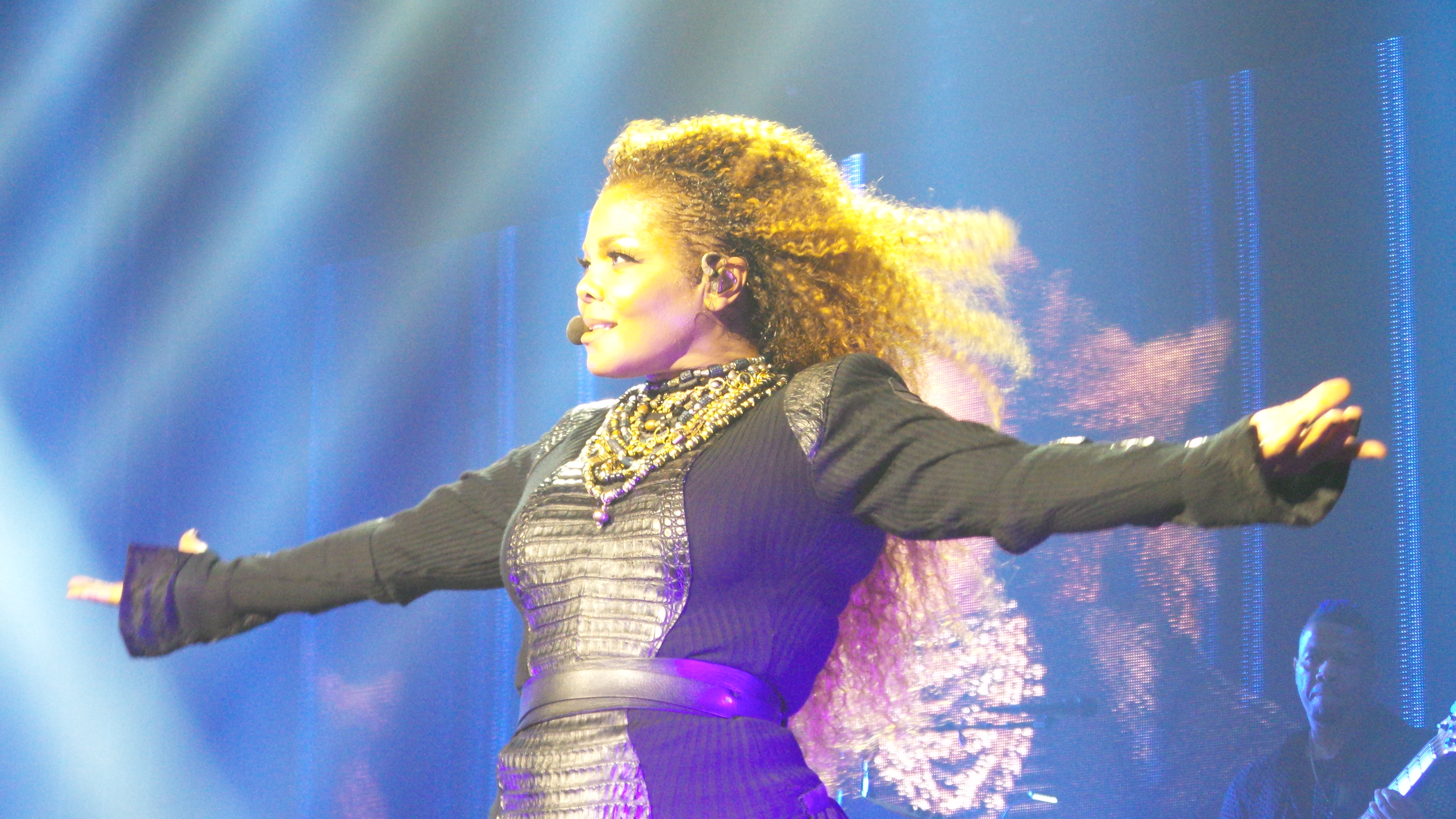 Janet Jackson Unbreakable Tour, Honolulu, Hawaii 2015